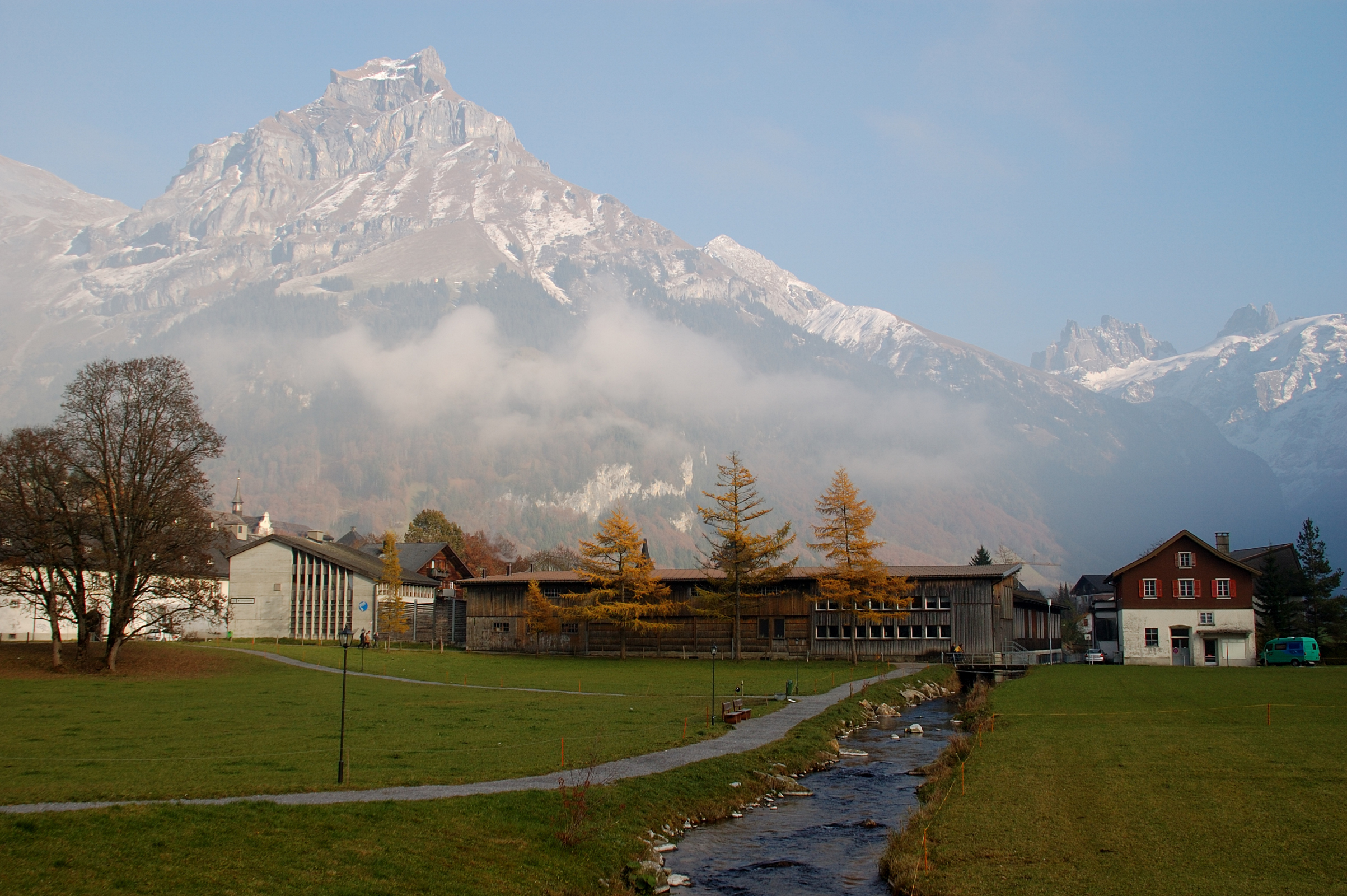 View from Engelberg OW, Switzerland, to the summit of Hahnen (8537ft)